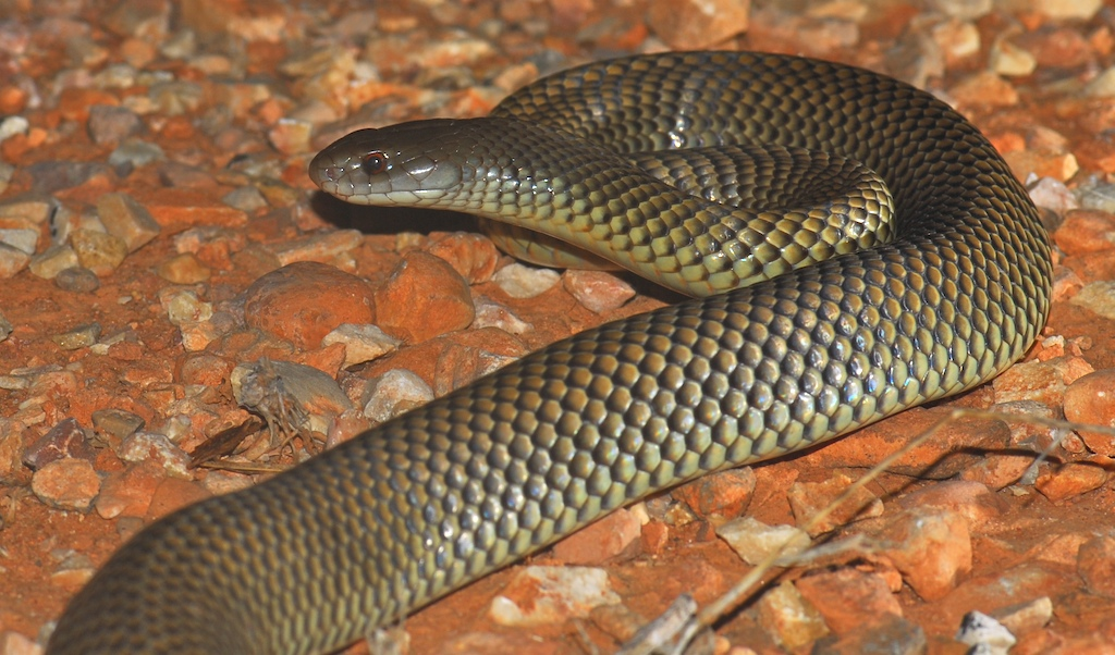 A mulga snake (Pseudechis australis), on the Western Cape, Western Australia.